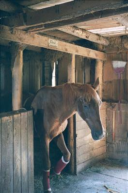 Photo of a horse in stable, wearing standing bandages, in upstate NY.